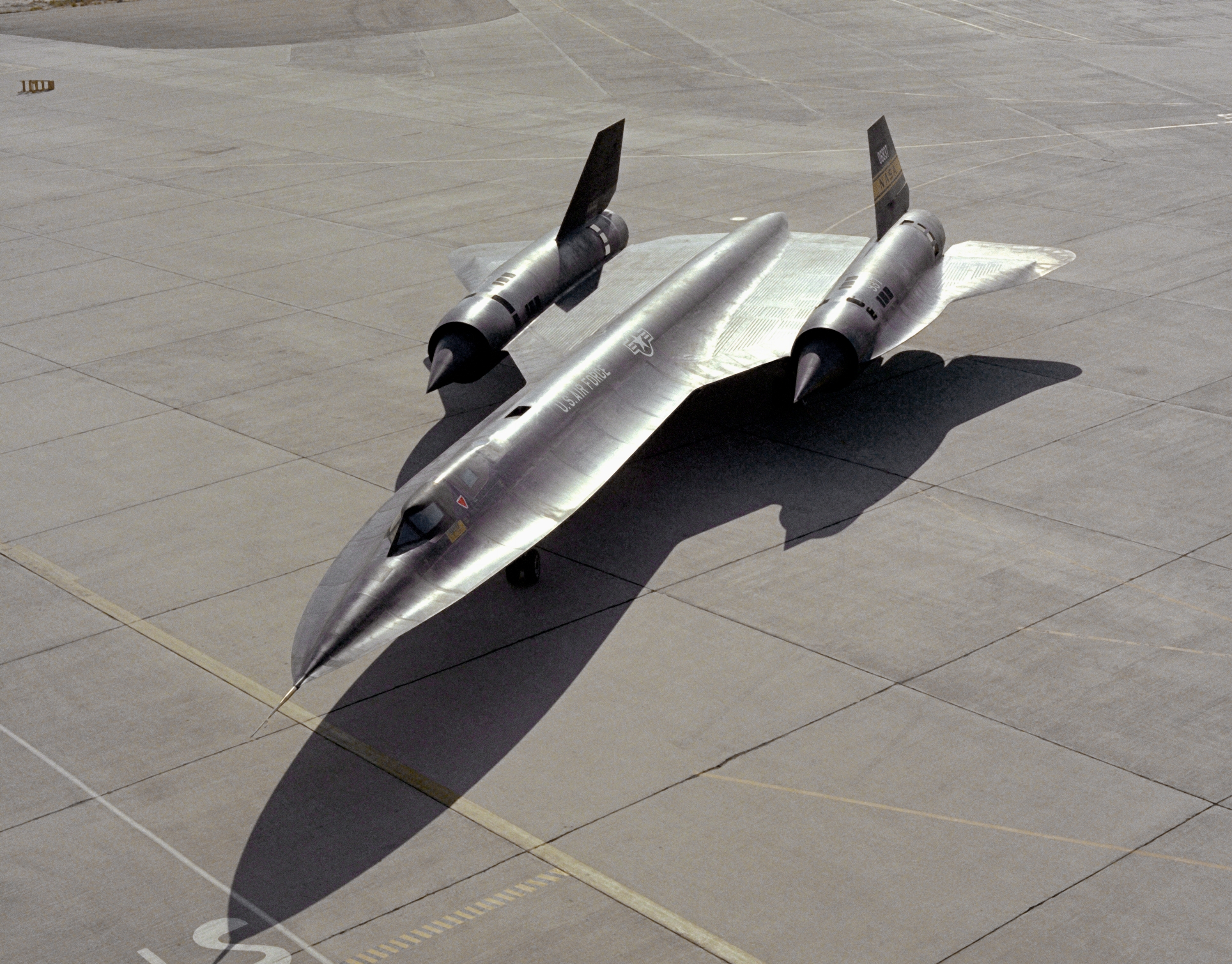 YF-12C #06937, a borrowed SR-71A, on the ramp at Dryden Flight Research Center.